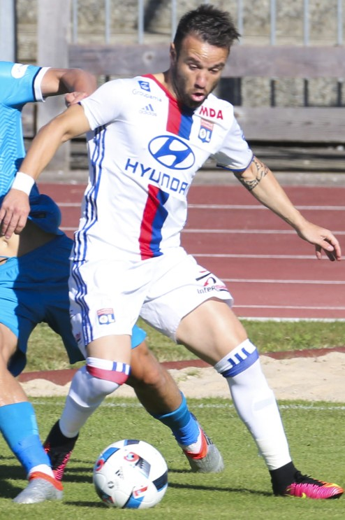 Mathieu Valbuena